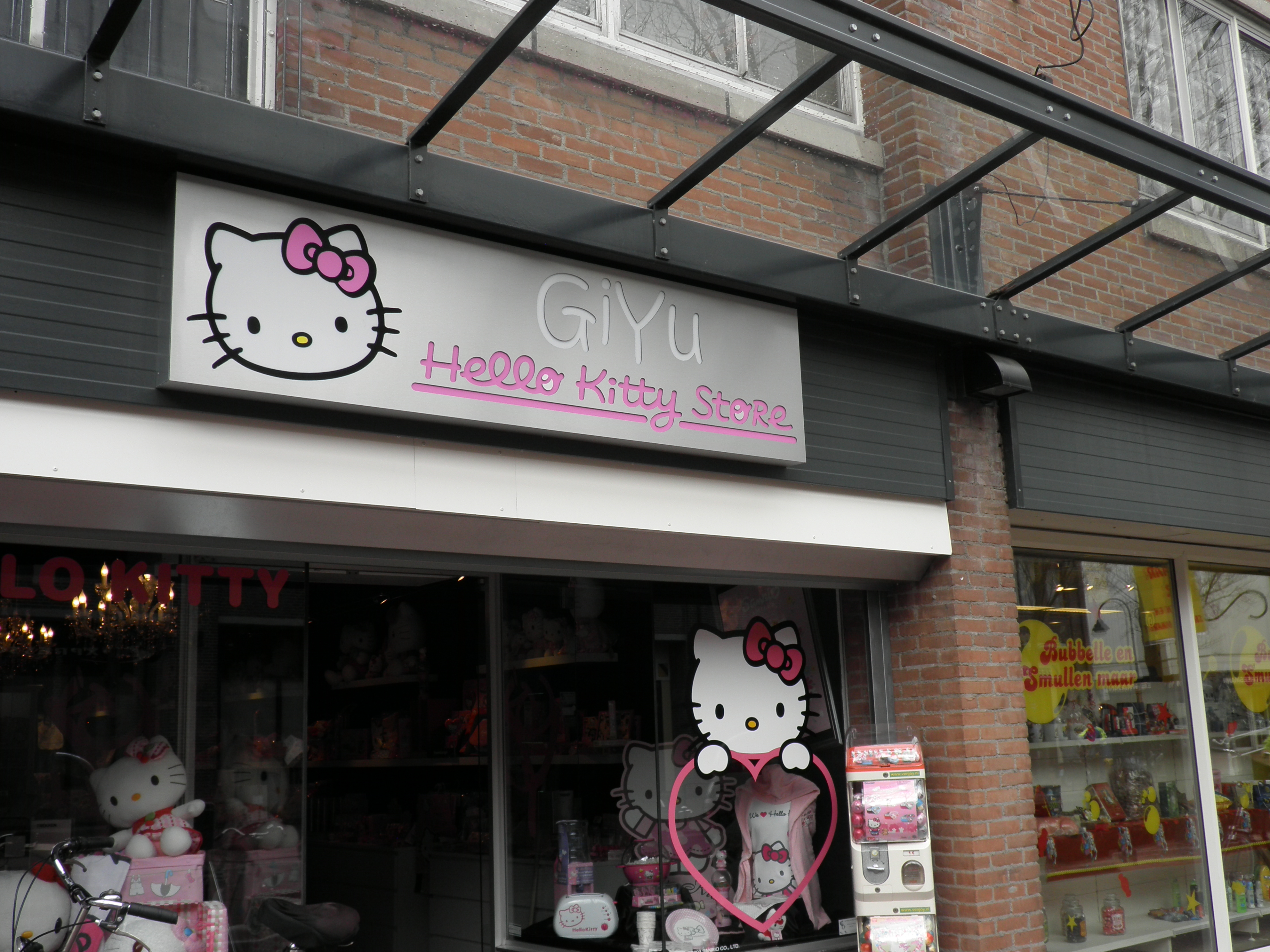 GiYu Hello Kitty Store on Gasthuislaan 52 Delft in the Netherlands. website